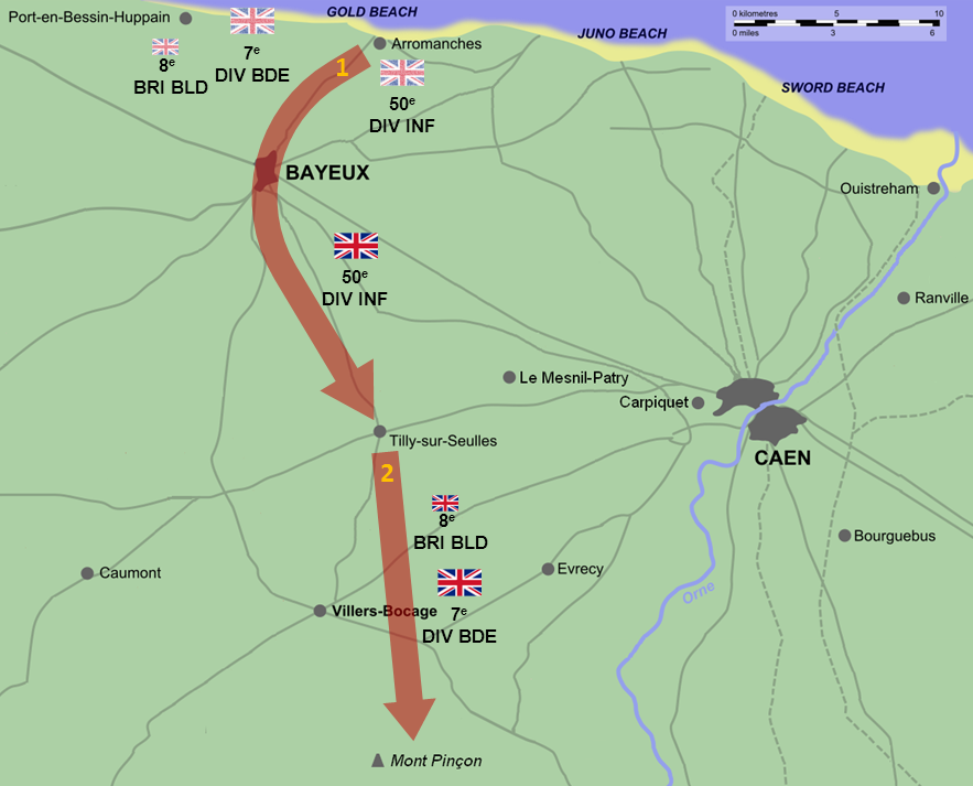 Original plan for the Perch Operation in June 1944 before it has been changed.